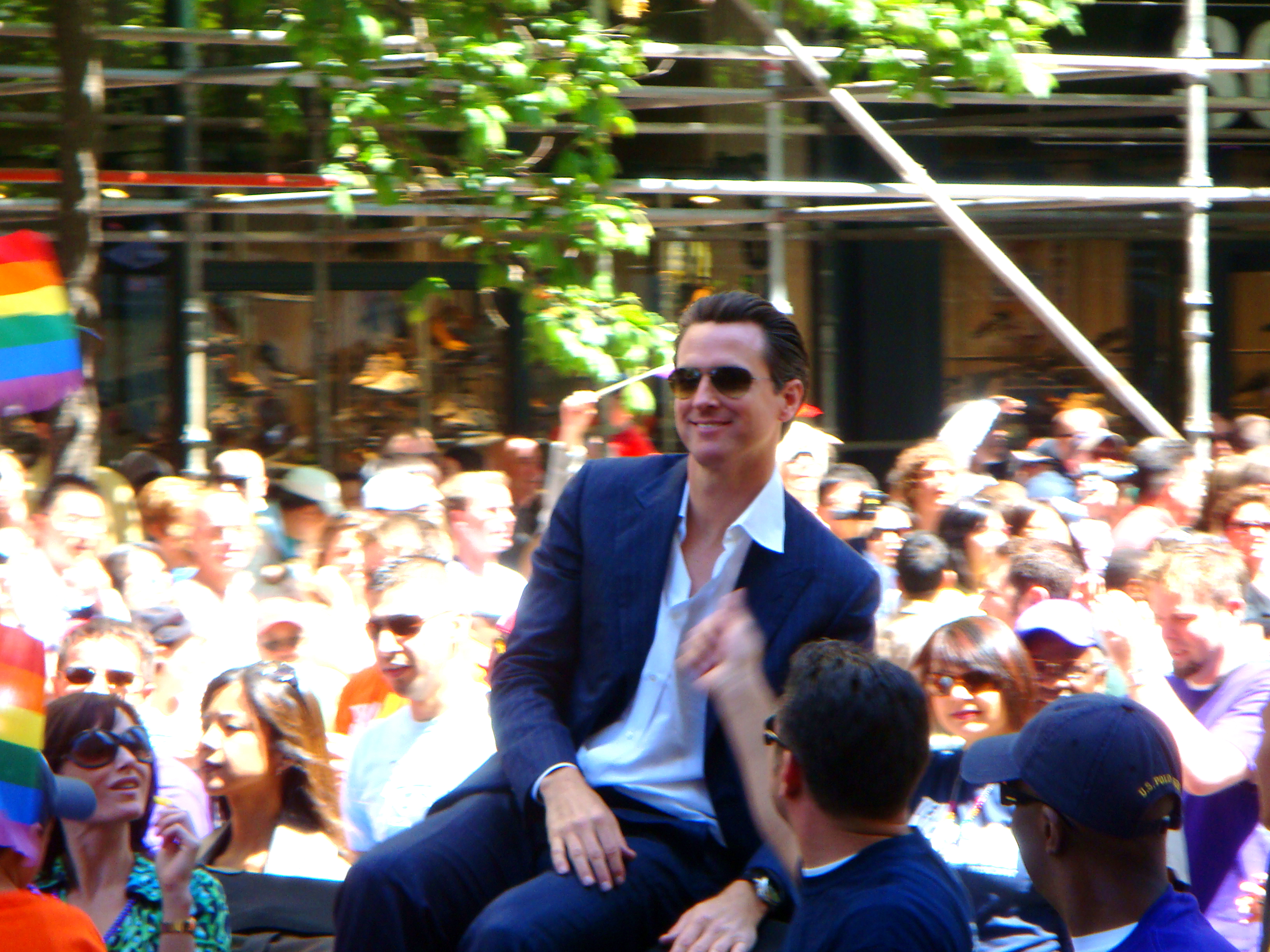 Gavin Newsom